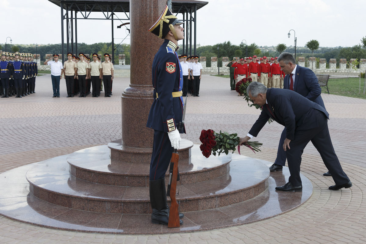 Глава российского военного ведомства проверил несение службы на миротворческом посту российскими военнослужащими